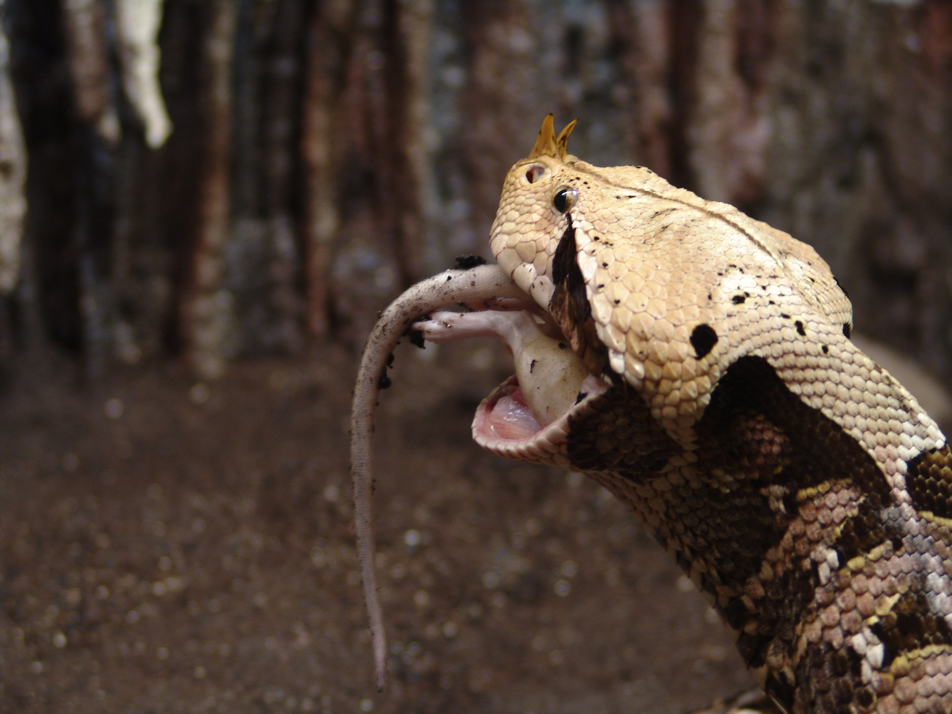 Gaboon Viper at Wilmington's Serpentarium, it is eating a rodent. I took the picture.